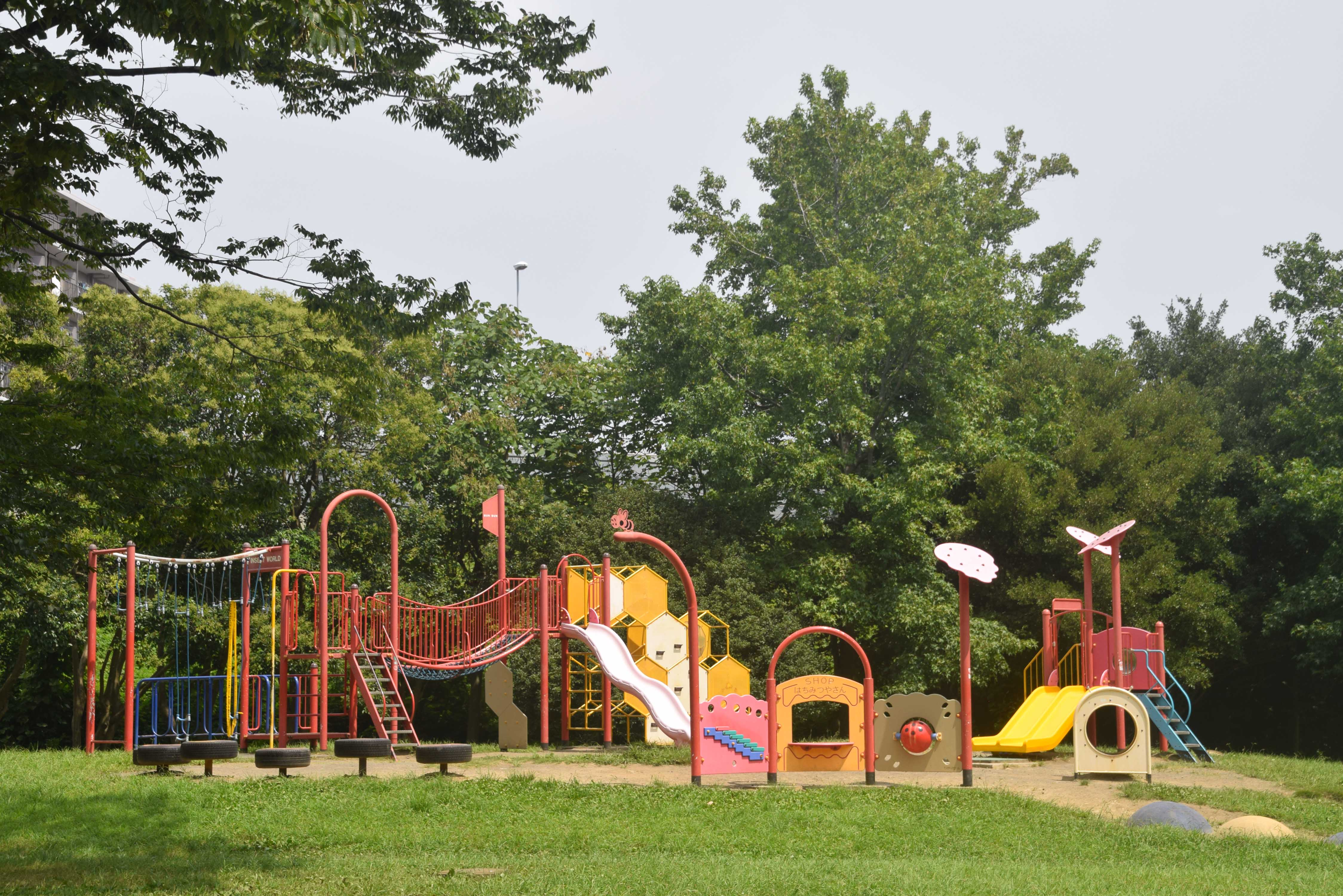 Children's playground in Gotenbe Park, Fujisawa, Kanagawa